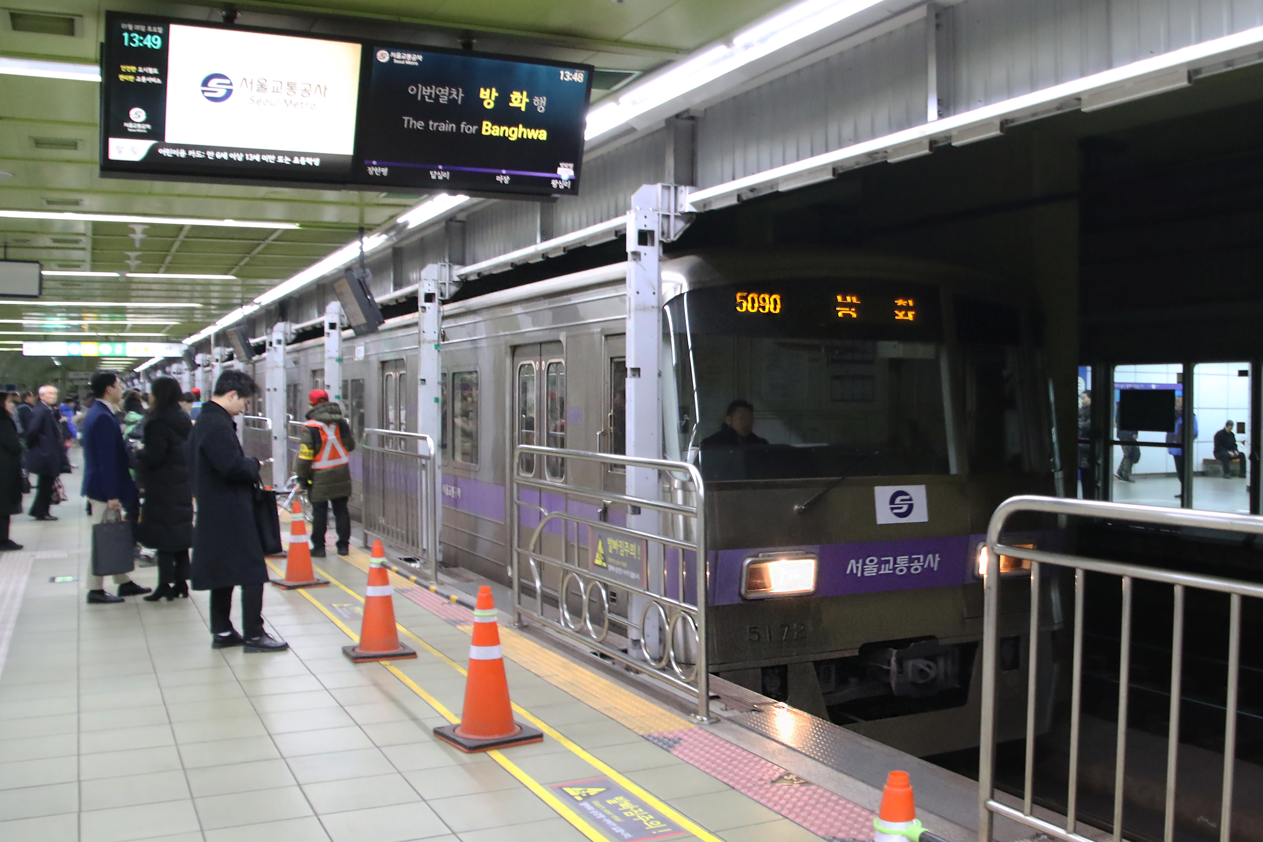 Banghwa-bound Seoul Metro Line 5 train of Seoul Metro 5000-series cars (train 5-72) arriving at Wangsimni.